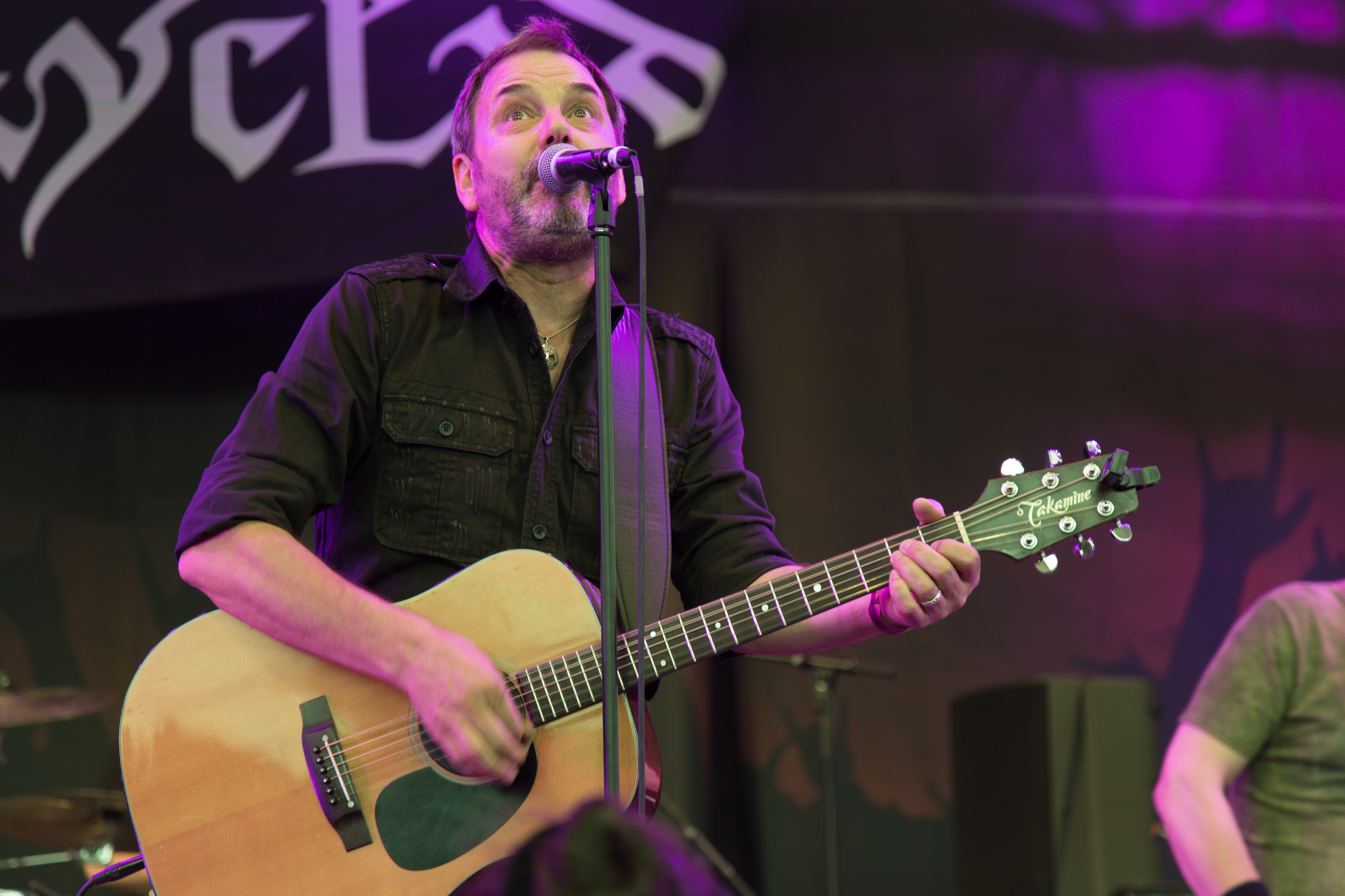 Skyclad performing live at Rock Hard Festival 2017, Gelsenkirchen, Germany